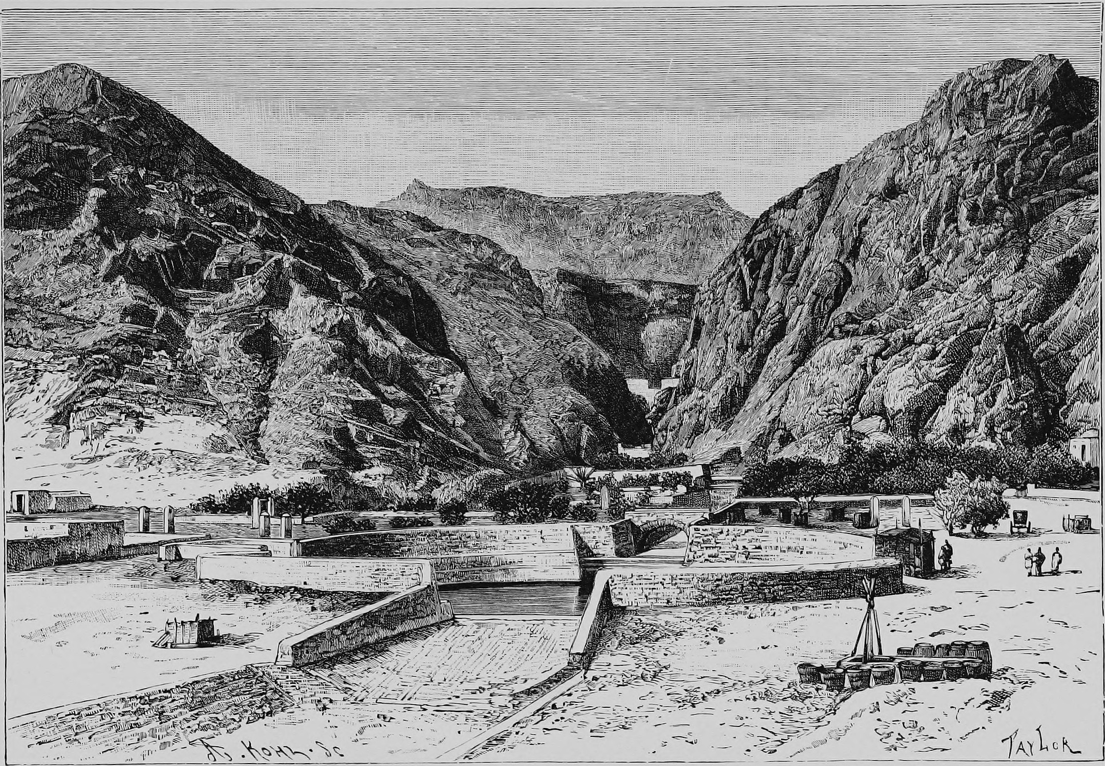 Cisterns of Tawila Aden Identifier: cu31924095158964 Title: The universal geography : the earth and its inhabitants Year: 1876 (1870s) Authors: Reclus, Elisée, 1830-1905 Ravenstein, Ernest George, 1834-1913 Keane, A. H. (Augustus Henry), 1833-1912 Subjects: Geography Publisher: London : J.S. Virtue & Co., Ltd.